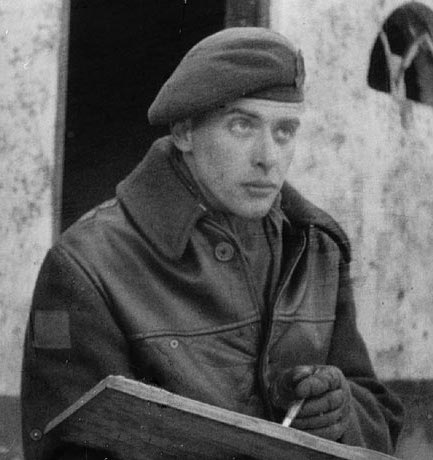 Canadian artist Alex Colville, war artist attached to the 3rd Canadian Infantry Division, on the Dutch/German border in the final months of WWII